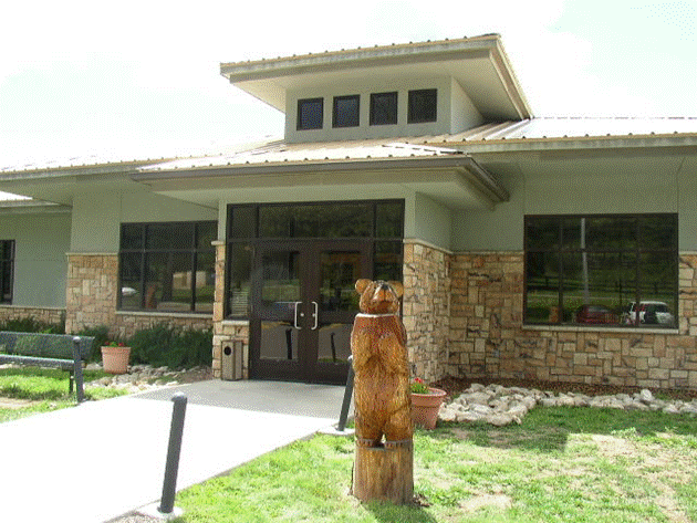 front of the Ruidoso Public Library building (built 1998)